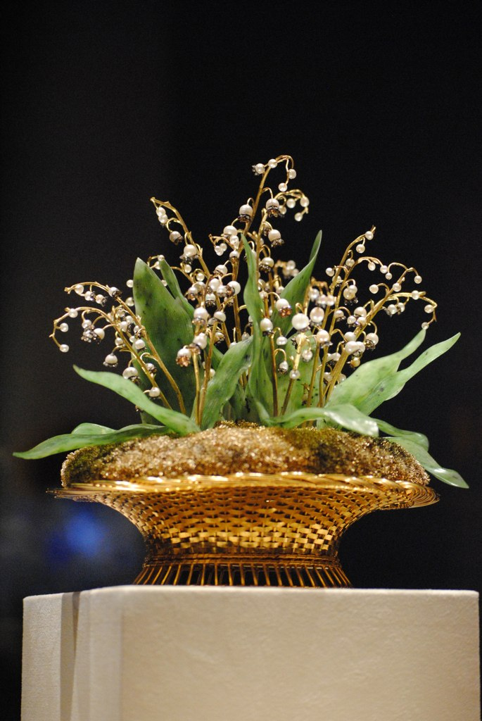 Imperial Lily of the Valley Basket 1896, Fabergé Workmaster: August Holmström Yellow and green gold, silver, nephrite, pearl, rose-cut diamond Matilda Geddings Gray Foundation collection